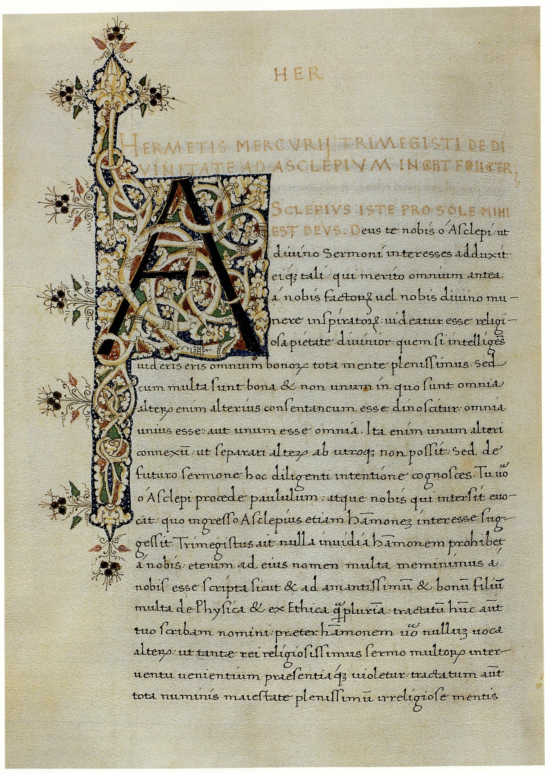 The beginning of the Hermetic dialogue Asclepius in the manuscript Venice, Biblioteca Nazionale Marciana, Lat. Z. 467 (= 1557), fol. 91v. The manuscript was owned by Cardinal Bessarion.